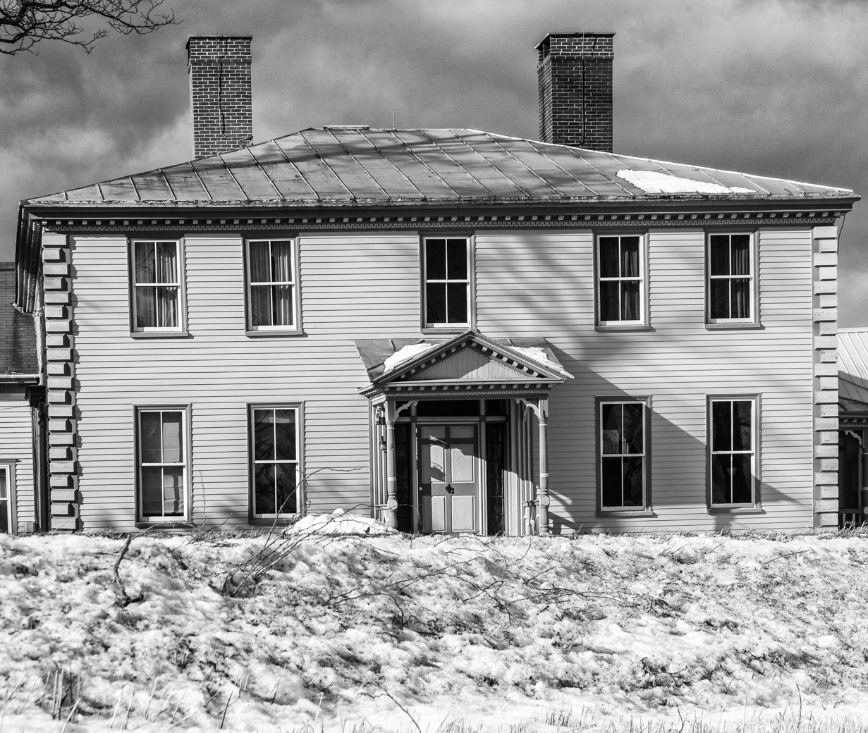 A very nicely maintained house (the Randall-Hildreth House) on Foreside Road in Topsham, Maine. Processed in Lightroom and converted to BW with Silver Efex. I believe this is considered an example of Federal style architecture.